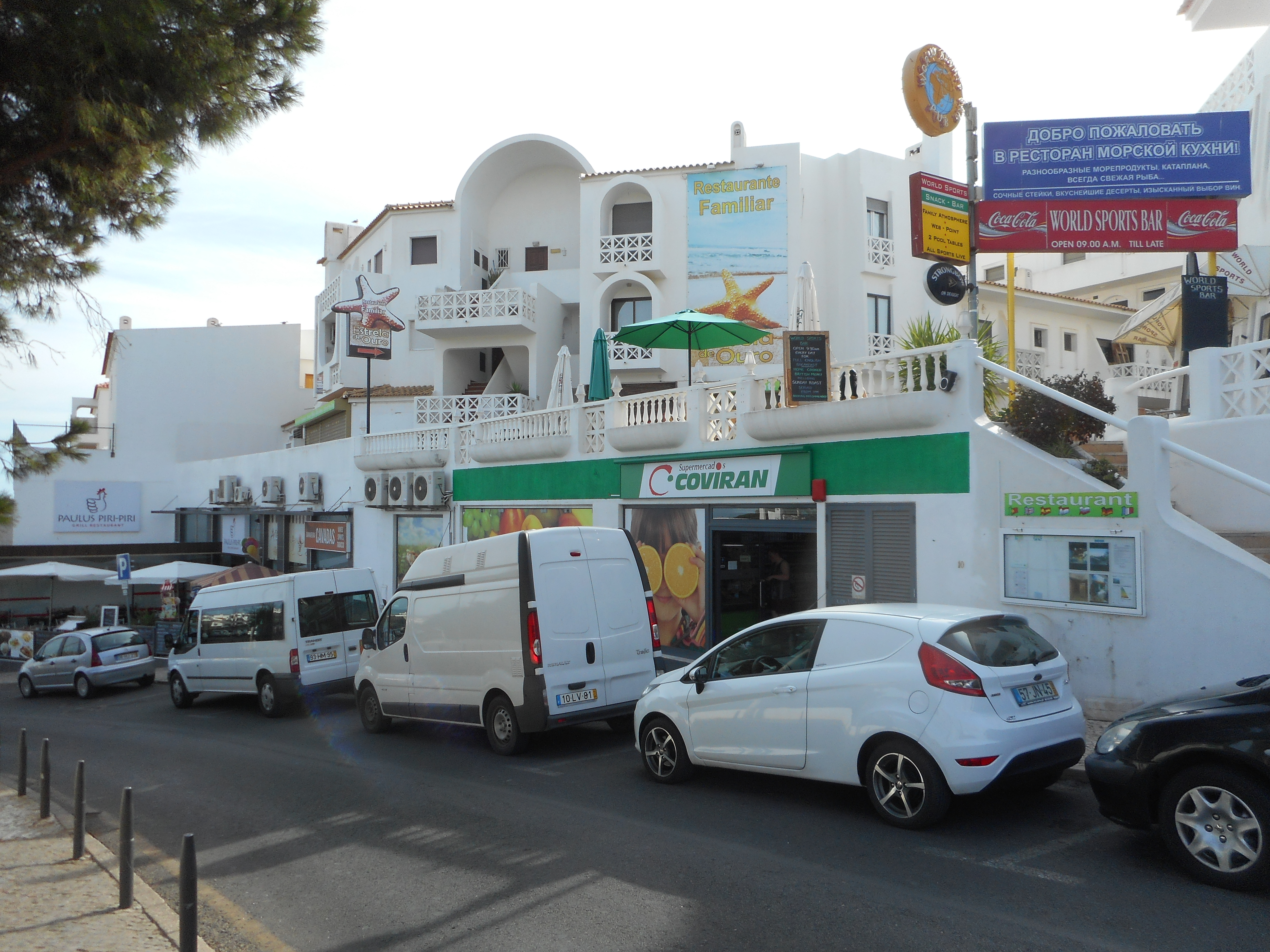 Coviran supermercadosis located on Rua Ramalho Ortigao, in the city of Albufeira, Algarve, Portugal.